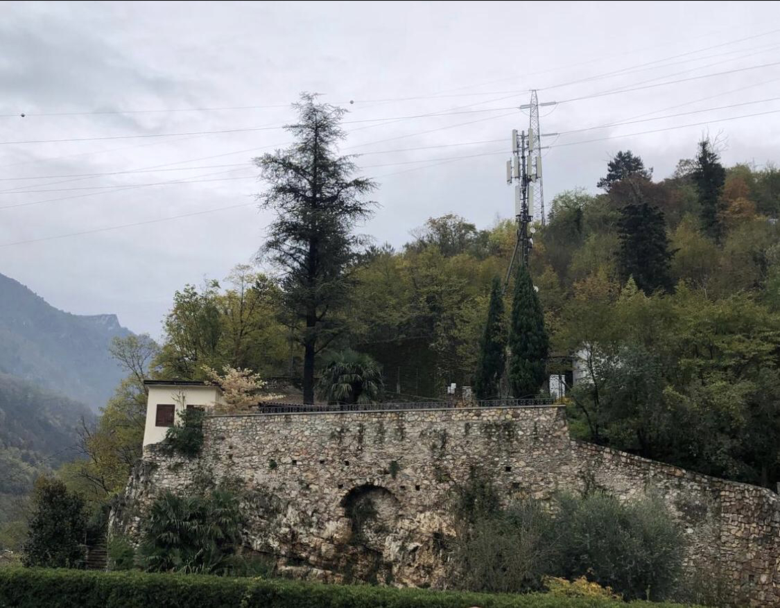 Fort of Italy